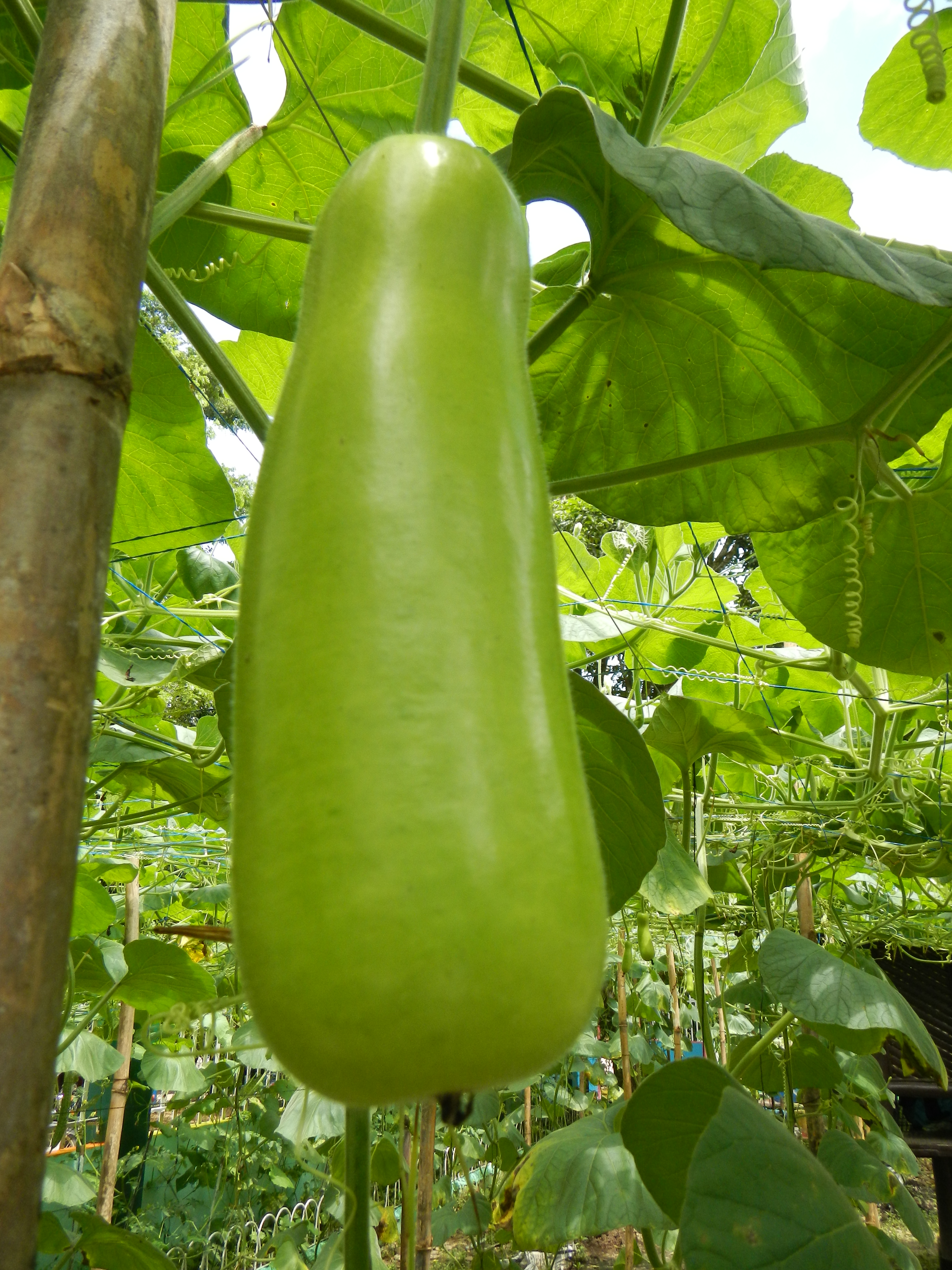 Cucurbitaceae in the Philippines (Cucurbita lagenaria-villosa Blanco) Calabash Cucurbita lagenaria-villosa Blanco - "Upo" - Lagenaria siceraria (Mol.) Standley, bottle gourd, white pumpkin Lagenaria siceraria synonym Lagenaria vulgaris Ser., also known as opo squash, or long melon, in the Pasong Bangkal, San Rafael, Bulacan Elementary School of San Rafael, Bulacan Barangay Pasong Bangkal, San Rafael, Bulacan - Landscapes, scenery, greens upon the blue and white sunny burning sun-sky, Vegetable fields, Paddy fields in Bulacan, - accessed from Baliuag-San Rafael, Bulacan, Interior Provincial and Barrio Roads and from Pan-Philippine Highway or Daang Maharlika in Cagayan Valley Road.